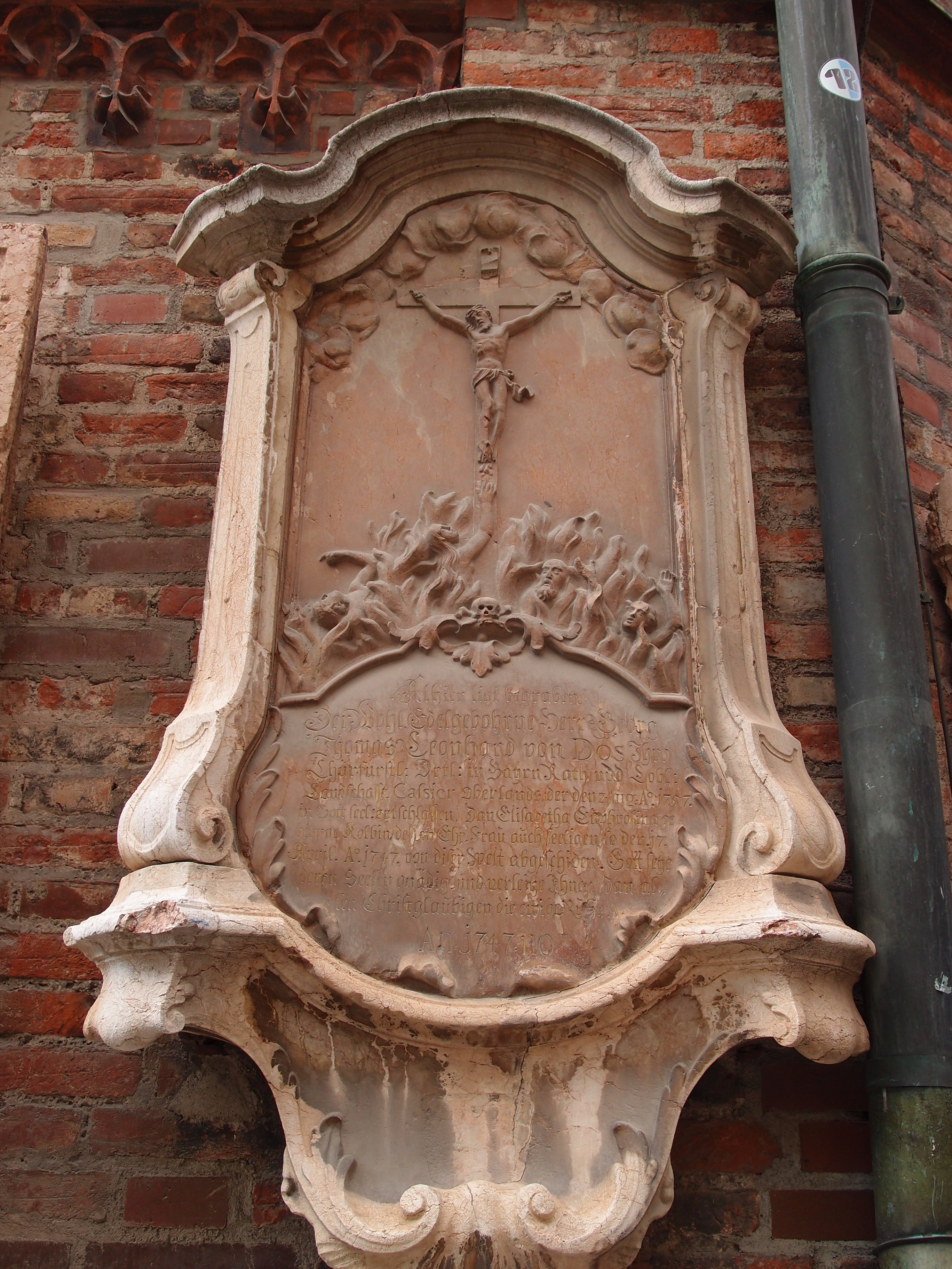 "Purgatory“ on a gravestone from 1747 at the Cathedral of Our Dear Lady in Munich, Bavaria, Germany.